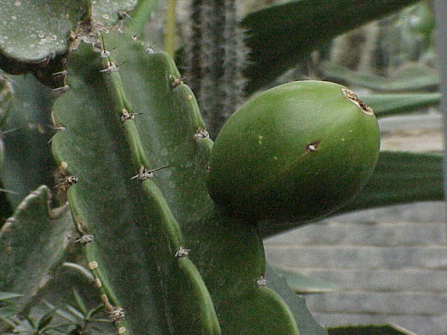 Species: Dendrocereus nudiflorus Family: Cactaceae Image No. 1